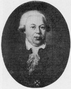 Matthias Calonius, professor of science of law